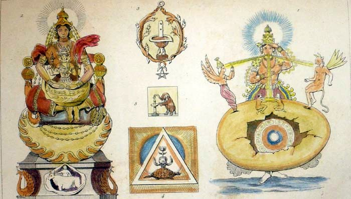 An attempt to depict the creative activities of Prajapati; a steel engraving from the 1850's, with modern hand coloring Source: ebay, Dec. 2006